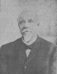 Ermelindo Salazar, Alcalde de Ponce, Puerto Rico (DP22)